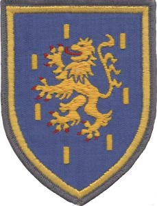 coat of arms Panzerbrigade 15 (PzBrig 15) of the Bundeswehr (Armed Forces of the Federal Republic of Germany). → Remarks on naming and categorization scheme